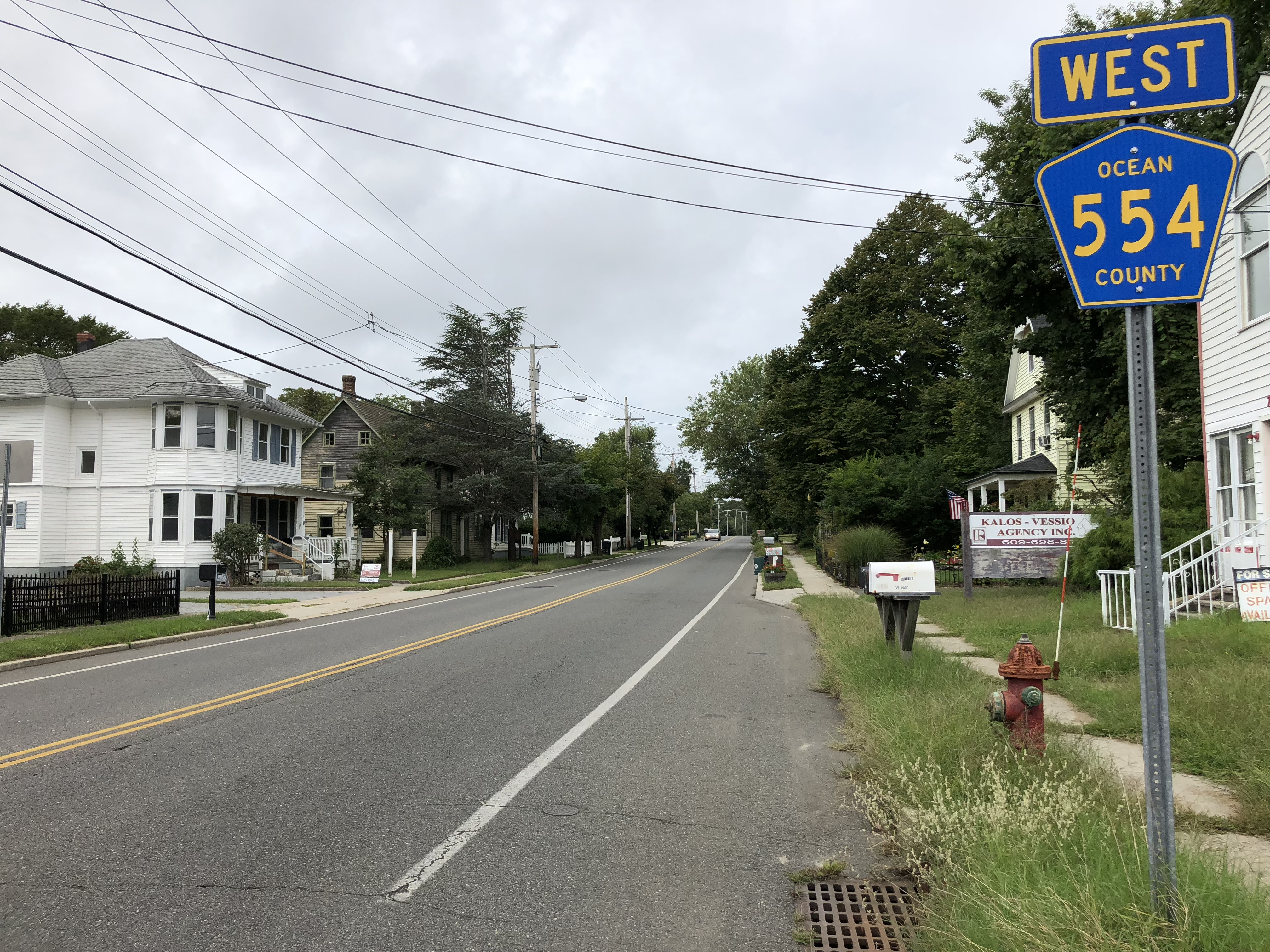 View west along Ocean County Route 554 (West Bay Avenue) just west of U.S. Route 9 (Main Street) in Barnegat Township, Ocean County, New Jersey